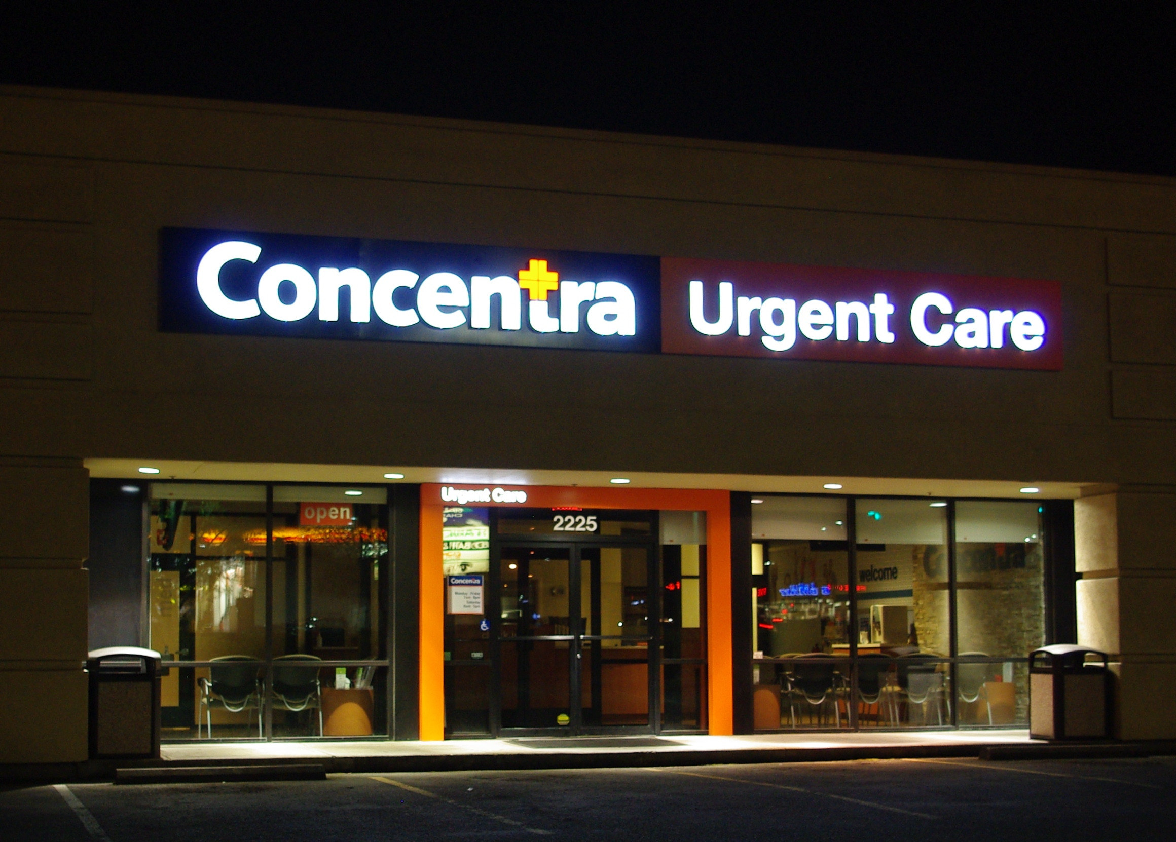 Concentra Urgent Care at night in Hillsboro, Oregon. Address is Beaverton, but within Hillsboro city limits.